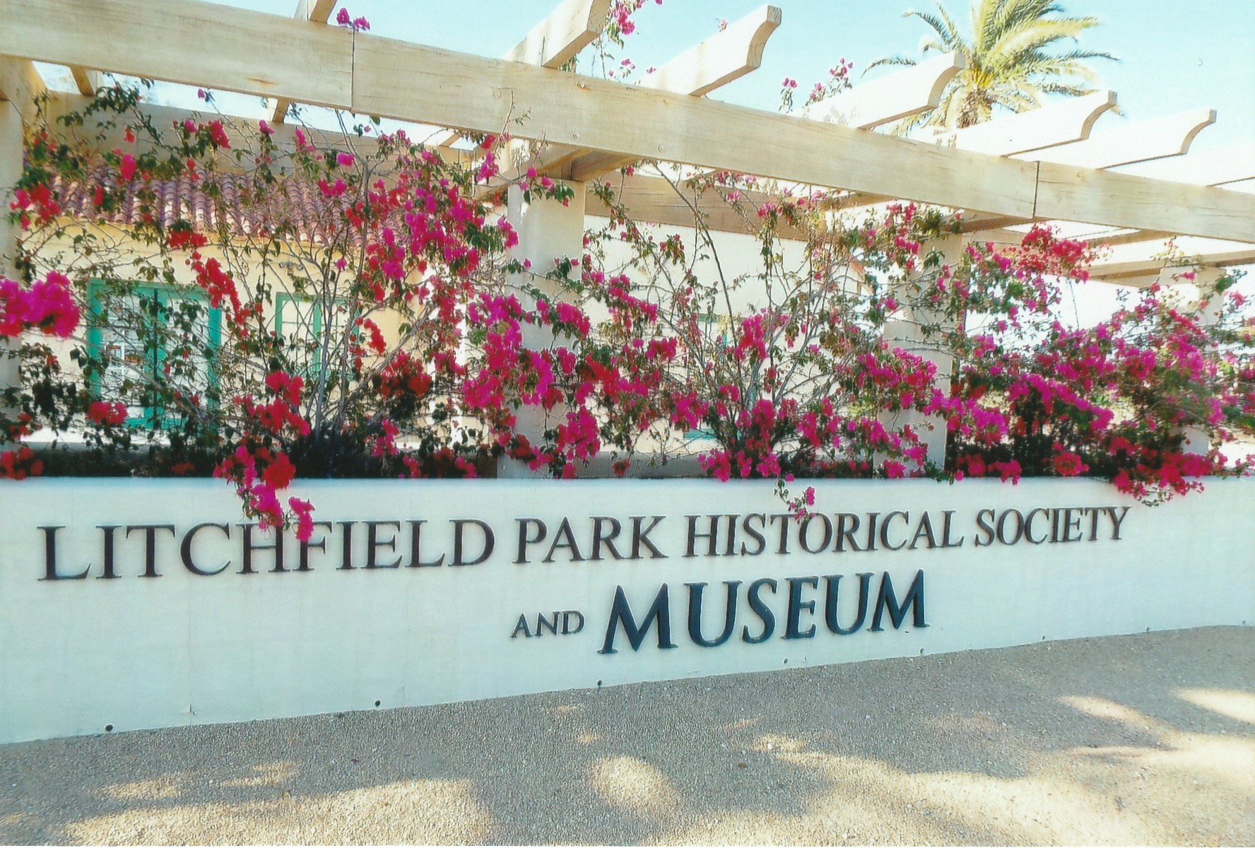 Aunt Mary's historic house in Litchfield, Az., now the home of the Litchfied Historic Soceity and Museum.